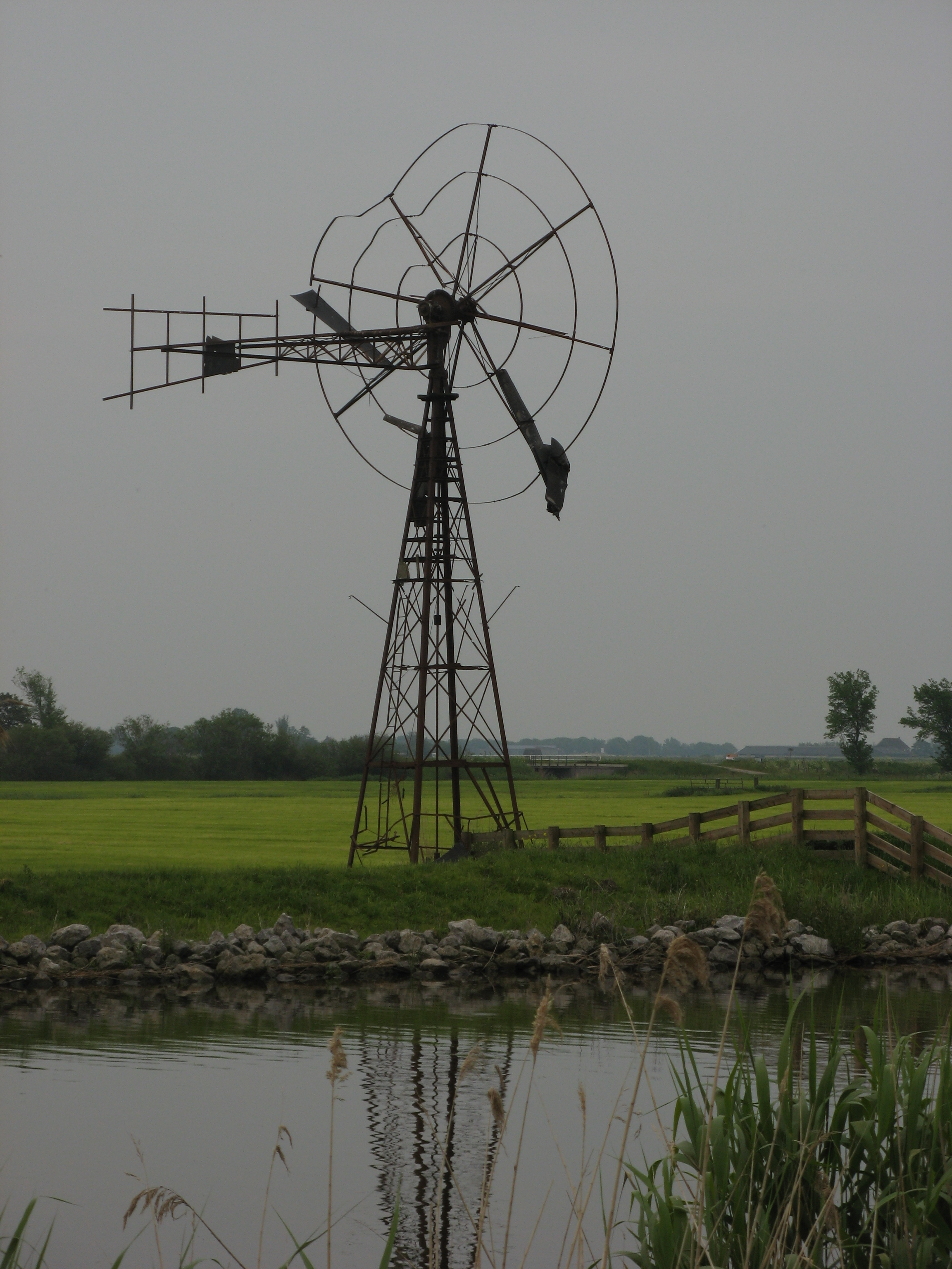 Windpump at Birdaard